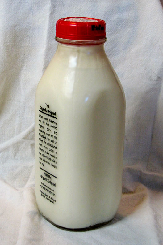 milk bottle showing cream at the top